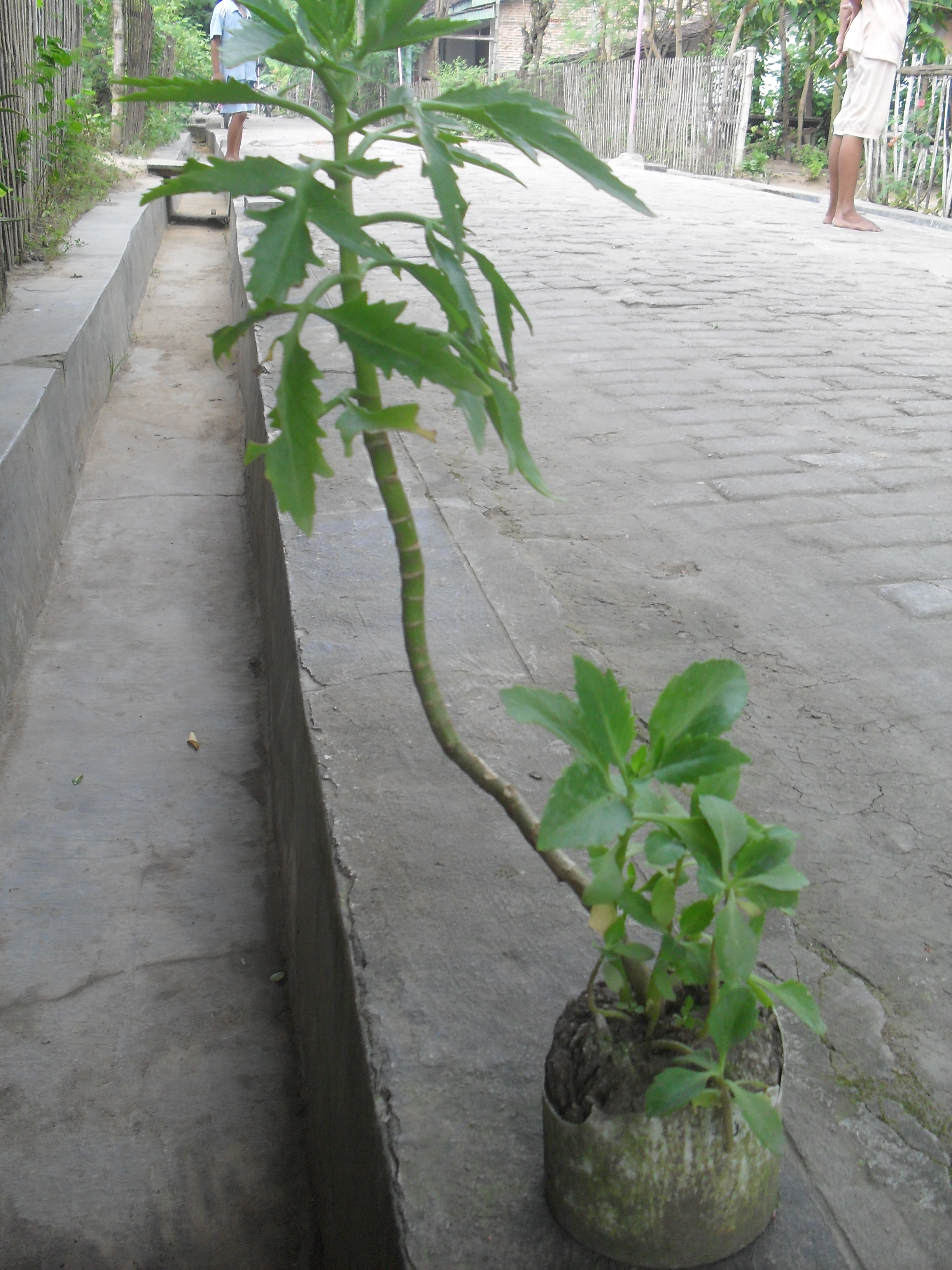 gambar ceker pithik